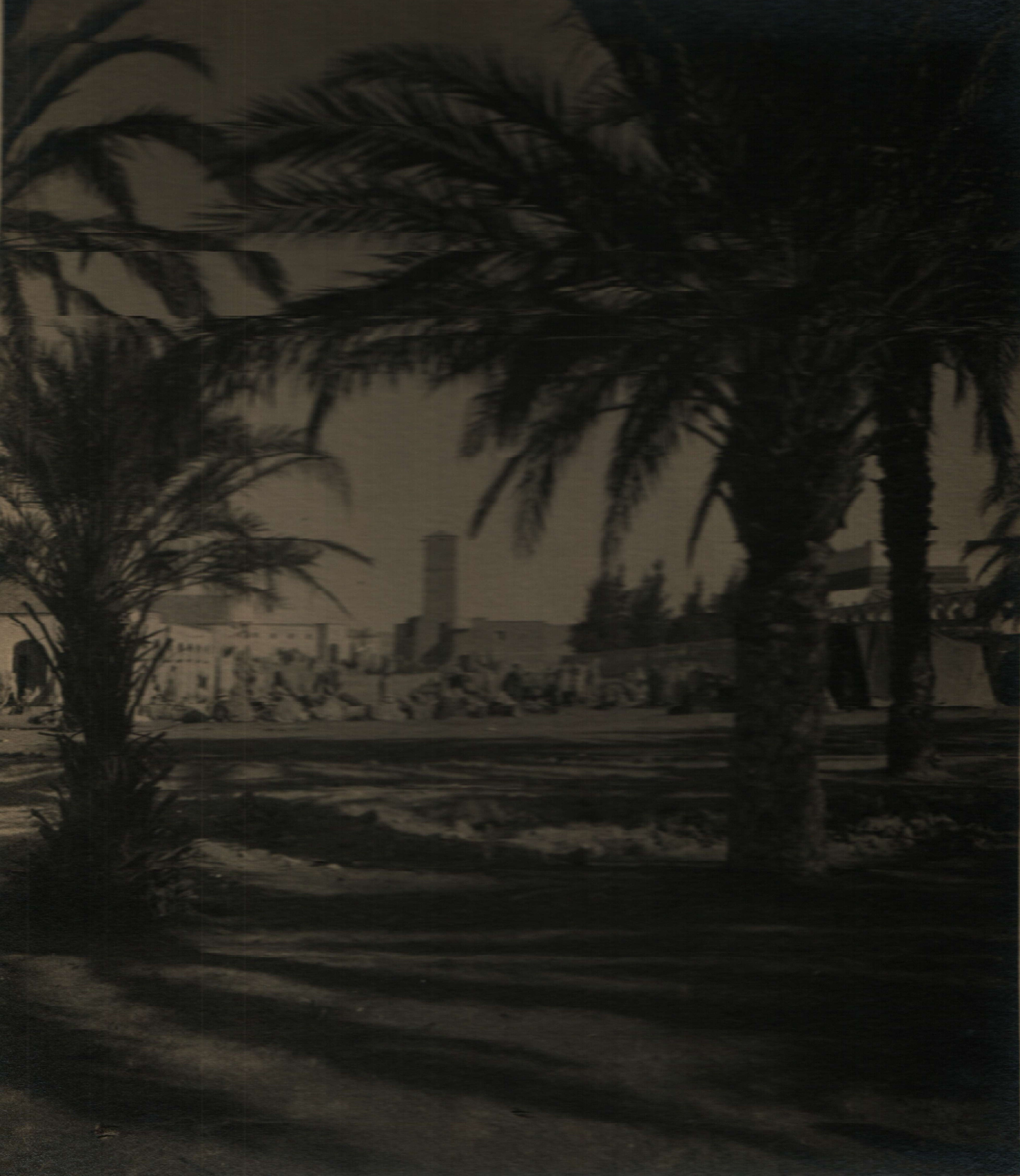 Market in Touggourt, Algeria. Views and photos of the Sahara desert and other regions in Africa.